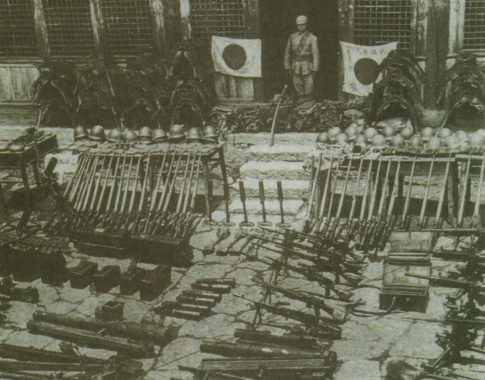 Captured Japanese equipment displayed by the victors during one of the third Battle of Changsha.